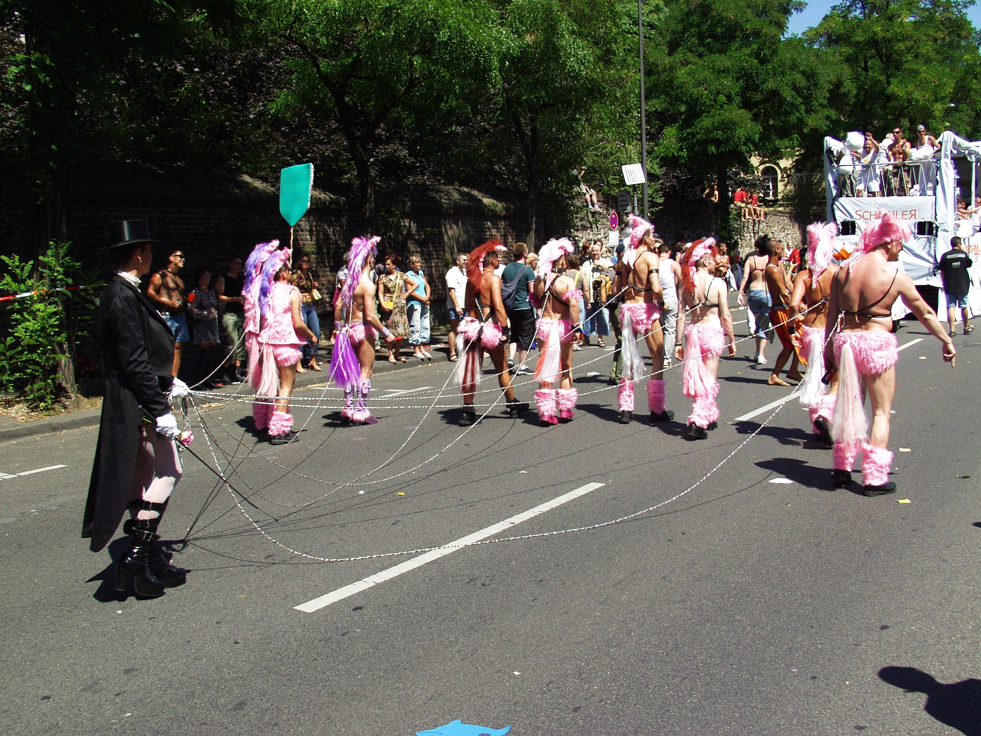 Members of the Christopher Street Day demonstration - ColognePride 2006